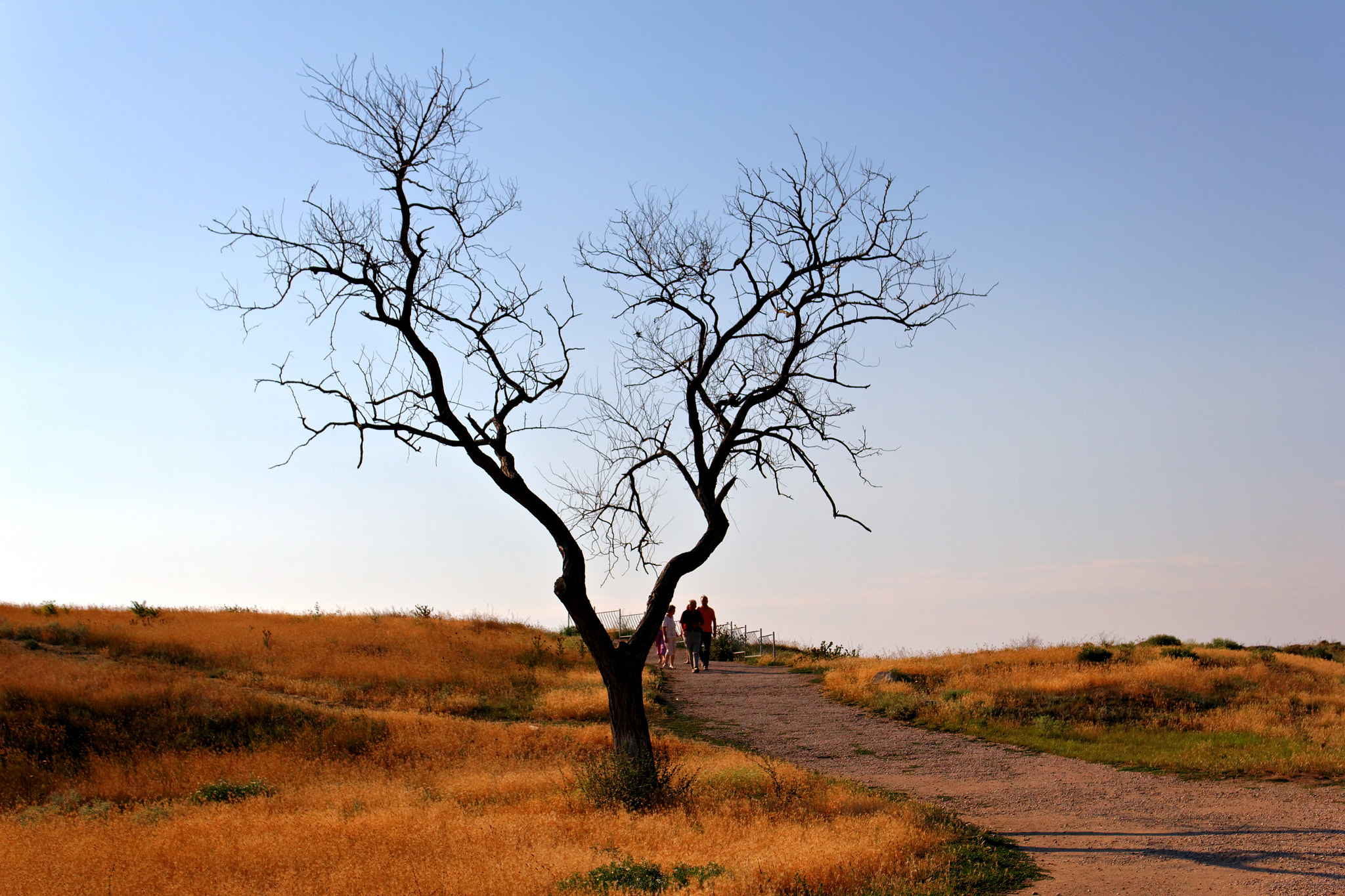 500px provided description: Kerch ????? [#city ,#???? ,#tree ,#summer ,#plant ,#?????? ,#????? ,#crimea ,#june ,#2012 ,#???? ,#kerch ,#???? ,#?????]